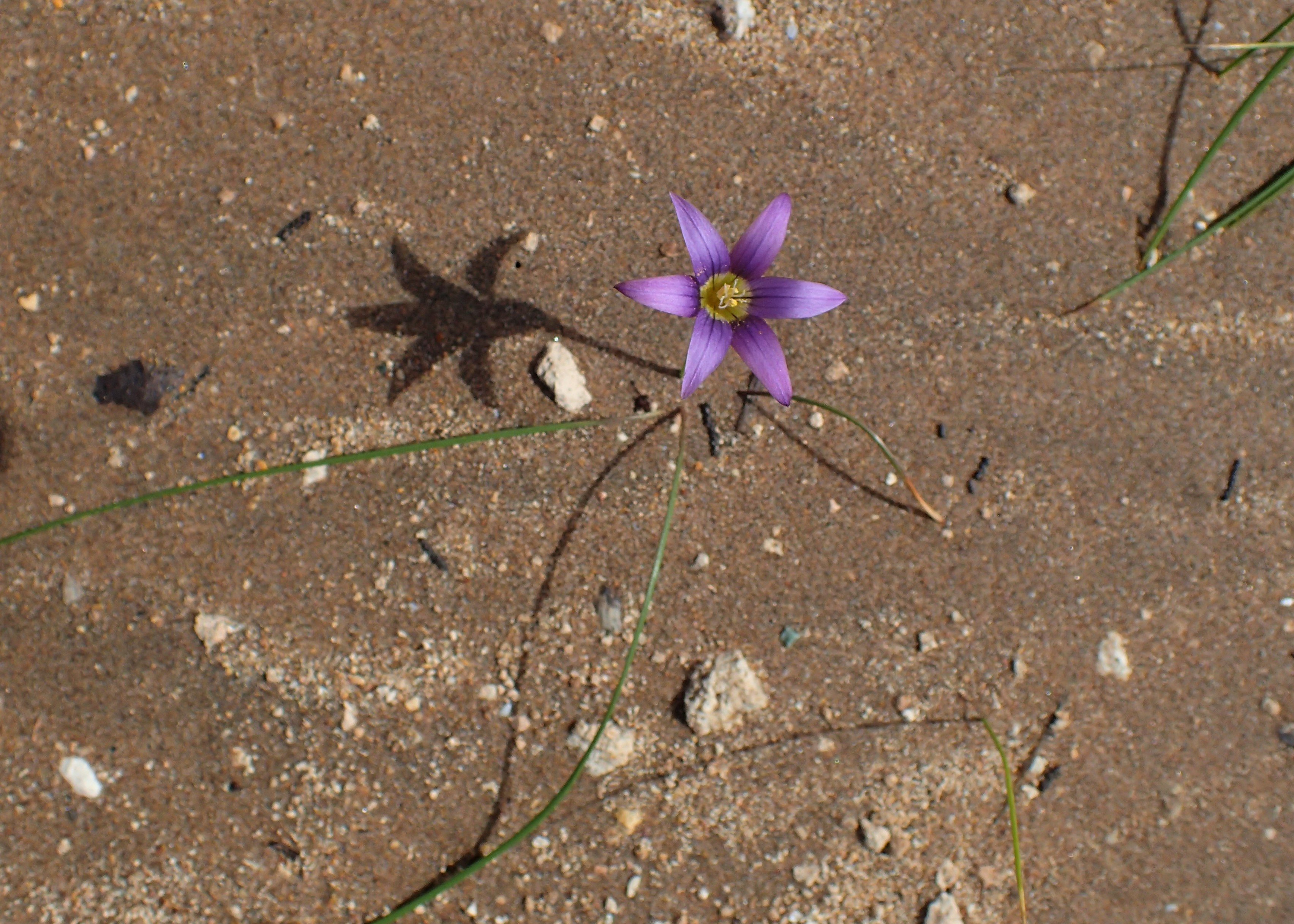 Romulea engleri in wet slacks among dunes at Atlantic coast near Essaouria (Marrakesh-Safi, Morocco)